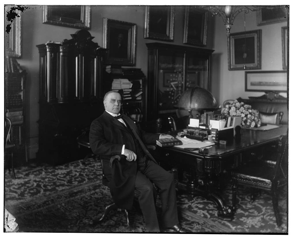 McKinley, Pres. Wm., made at the White House, Monday, Nov. 27, 1900